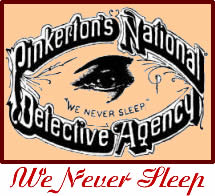 First logo for the Pinkerton National Detective Agency. Color version.